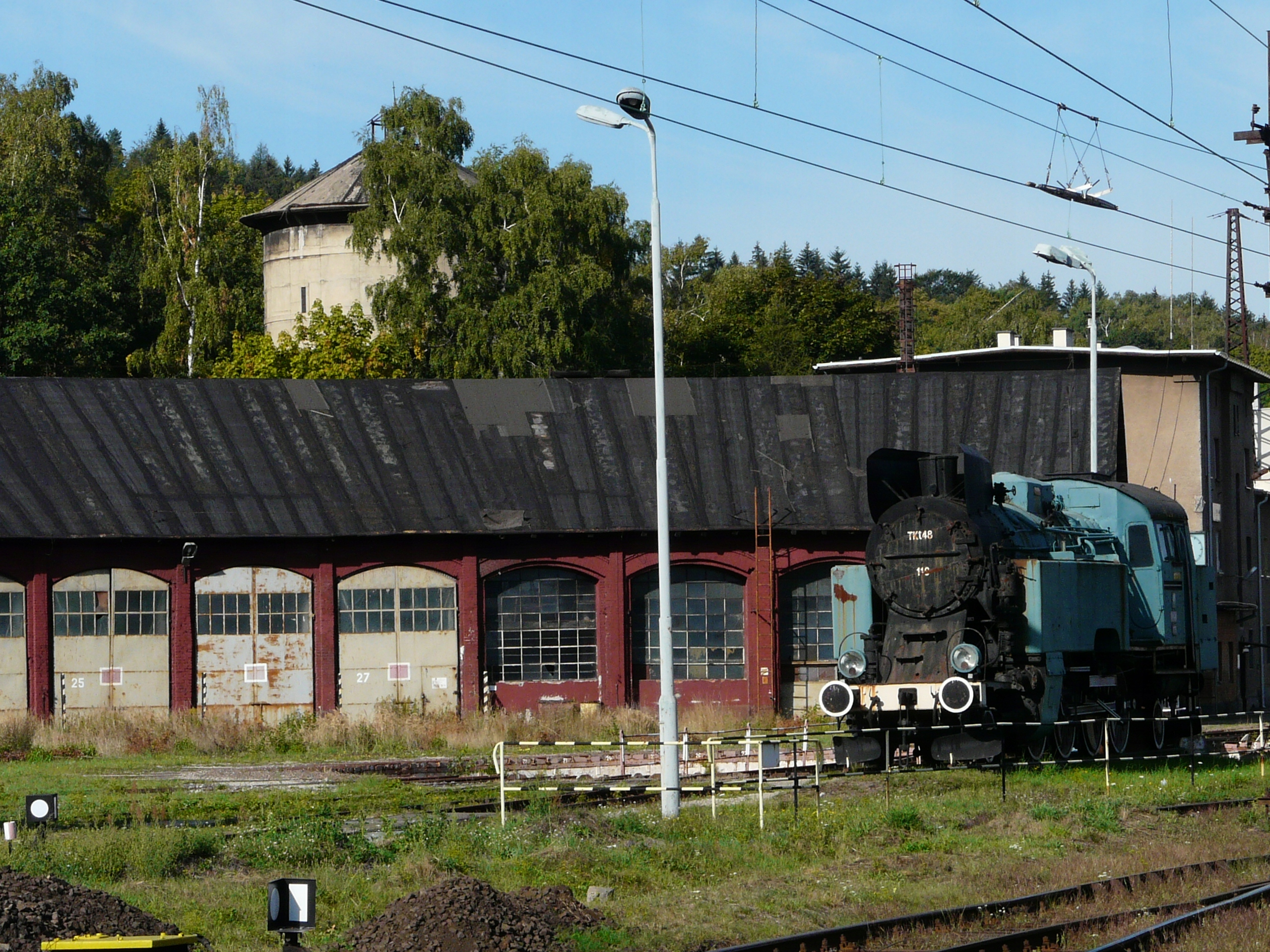 railway depot wałbrzych